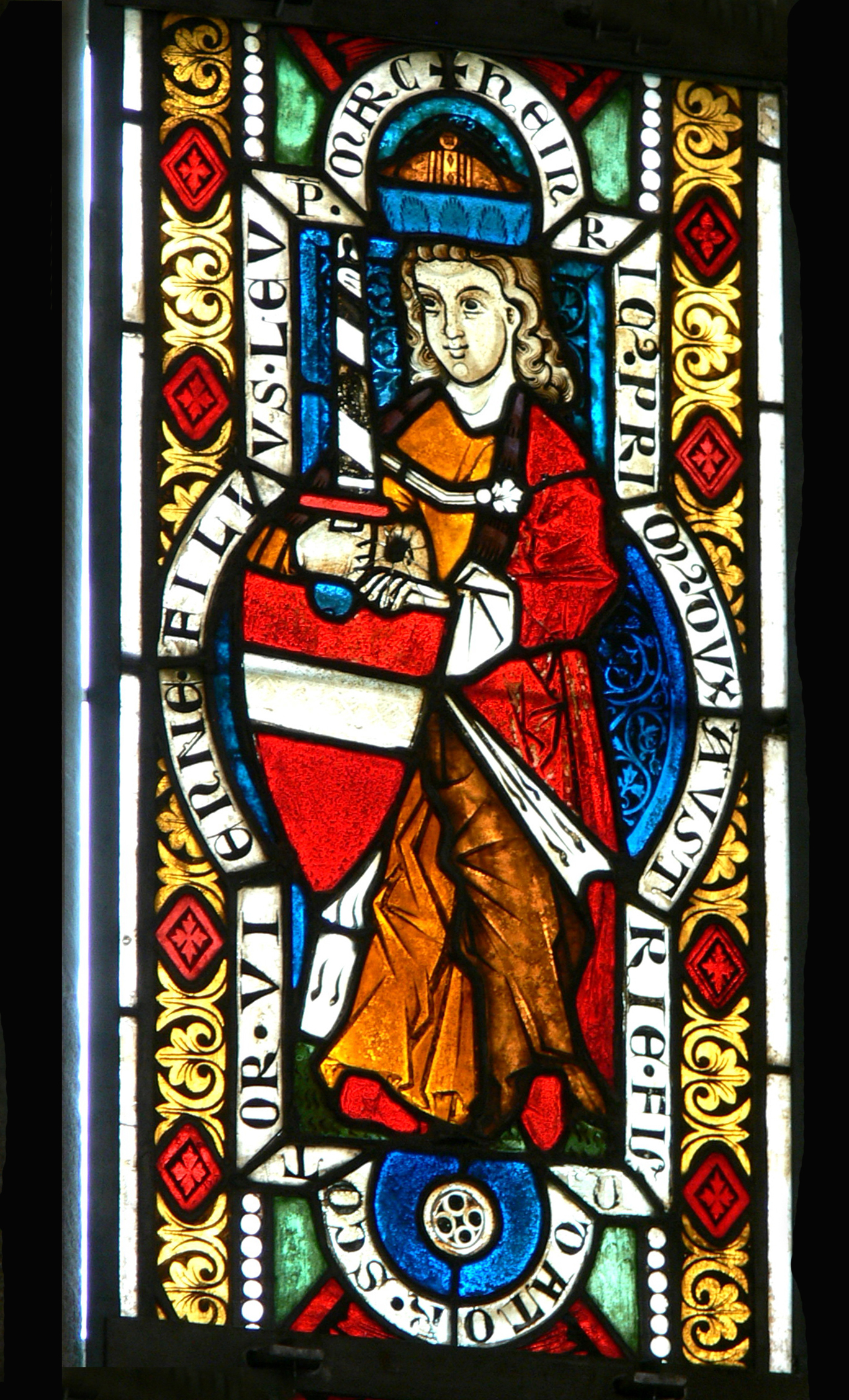 Heiligenkreuz abbey ( Lower Austria ). Lavabo: Babenberg windows ( 1290s ), showing members of the house of Babenberg: Henry II, duke of Austria.